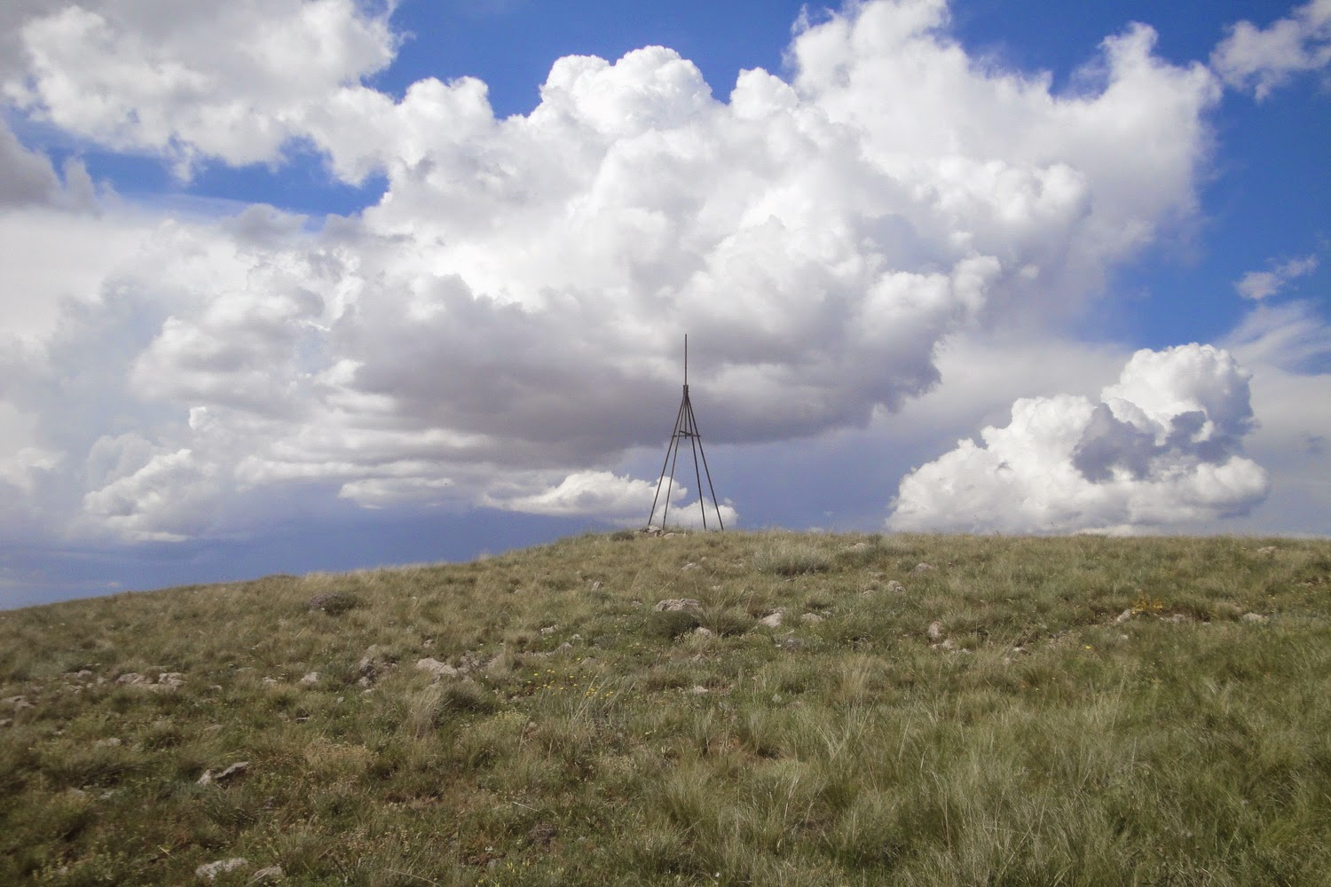 Mount Urtc, summit, 2014.06.17